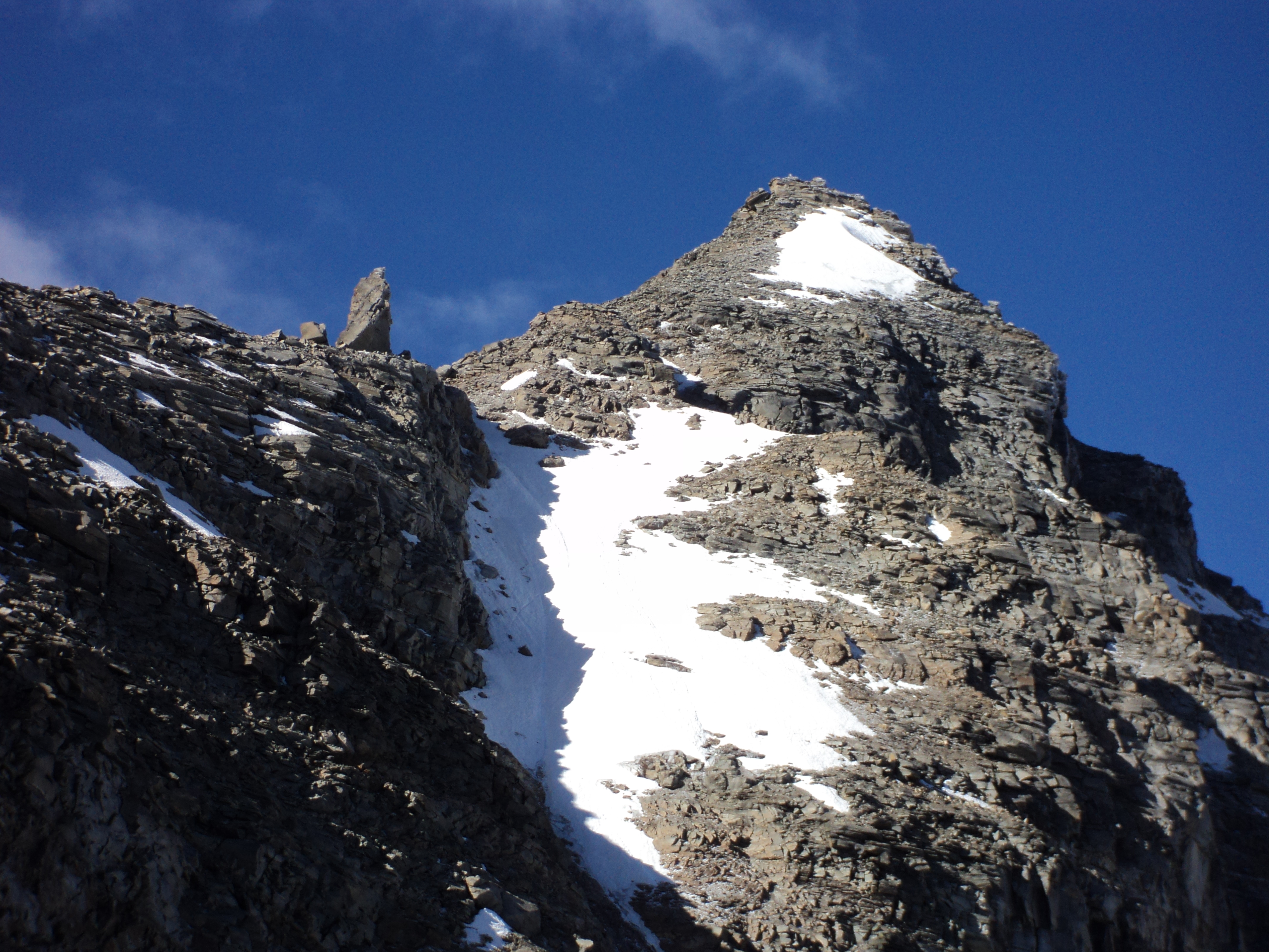 Becca di Monciair - Graian Alps